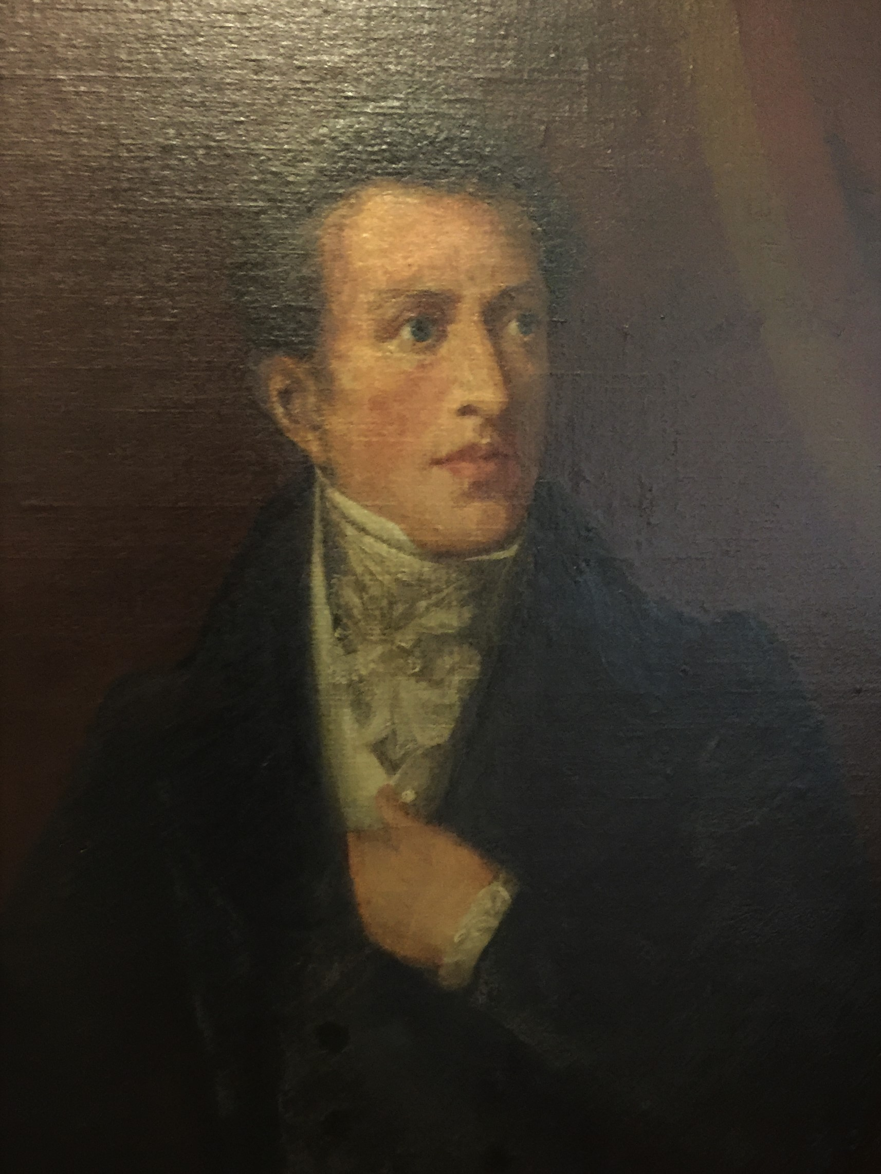 Fernando de Errázuriz y Martínez de Aldunate (June 1, 1777 – August 16, 1841), also known as Fernando Errázuriz Aldunate, was a Chilean political figure. He served as provisional president of Chile in 1831. Errázuriz was born in Santiago of Chile, the son of Francisco Javier de Errázuriz y Madariaga and of María Rosa Aldunate y Guerrero Carrera. He became a lawyer and participated in the independence movement in Chile. On October 2, 1801 he married María del Carmen Sotomayor Elzo, with whom he had 8 children.